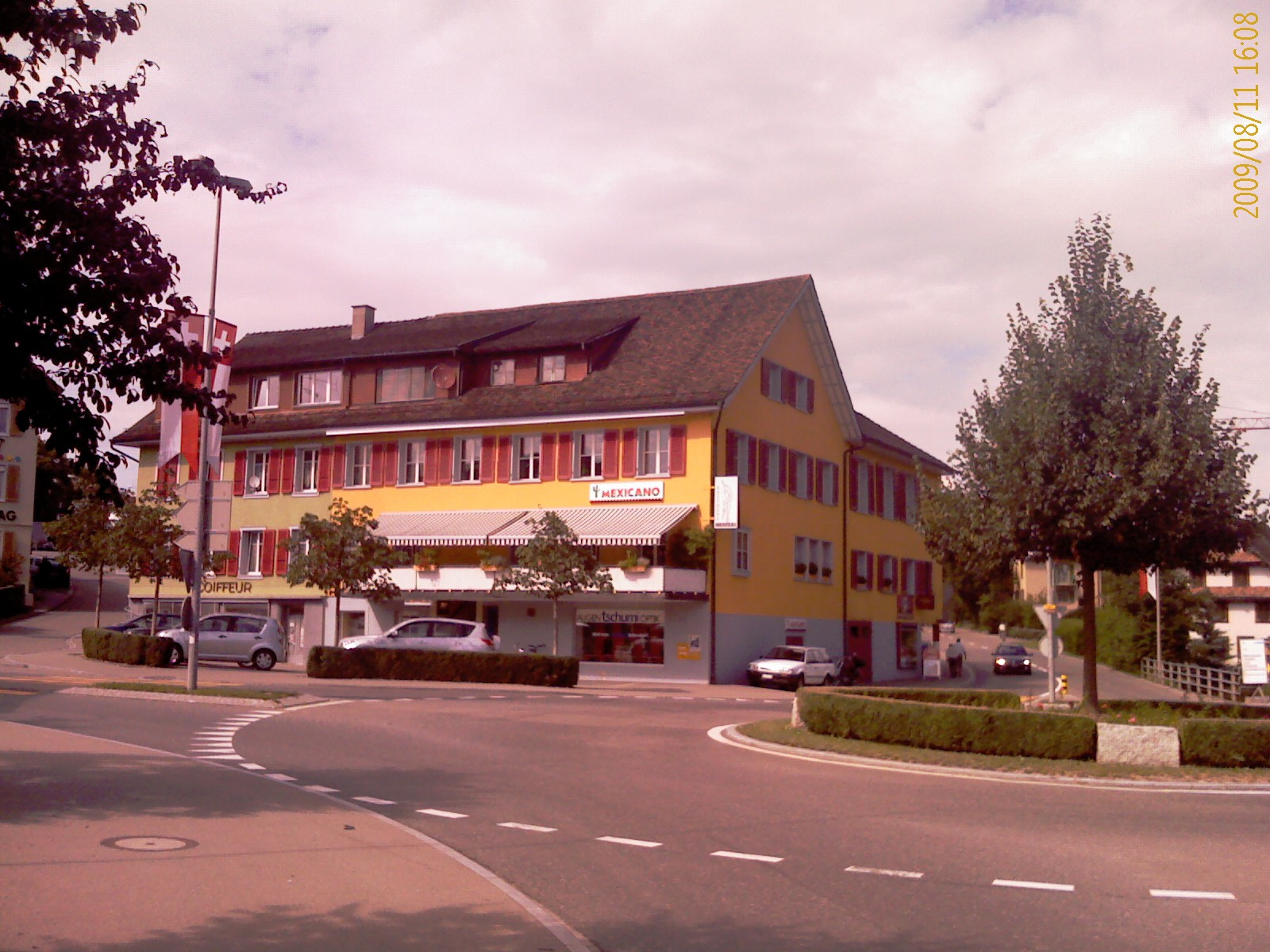 Mexican restaurant at Sins, canton of Aargau, SwitzerlandEsperanto: Meksika restoraico en Sins, Kantono Argovio, Svislando